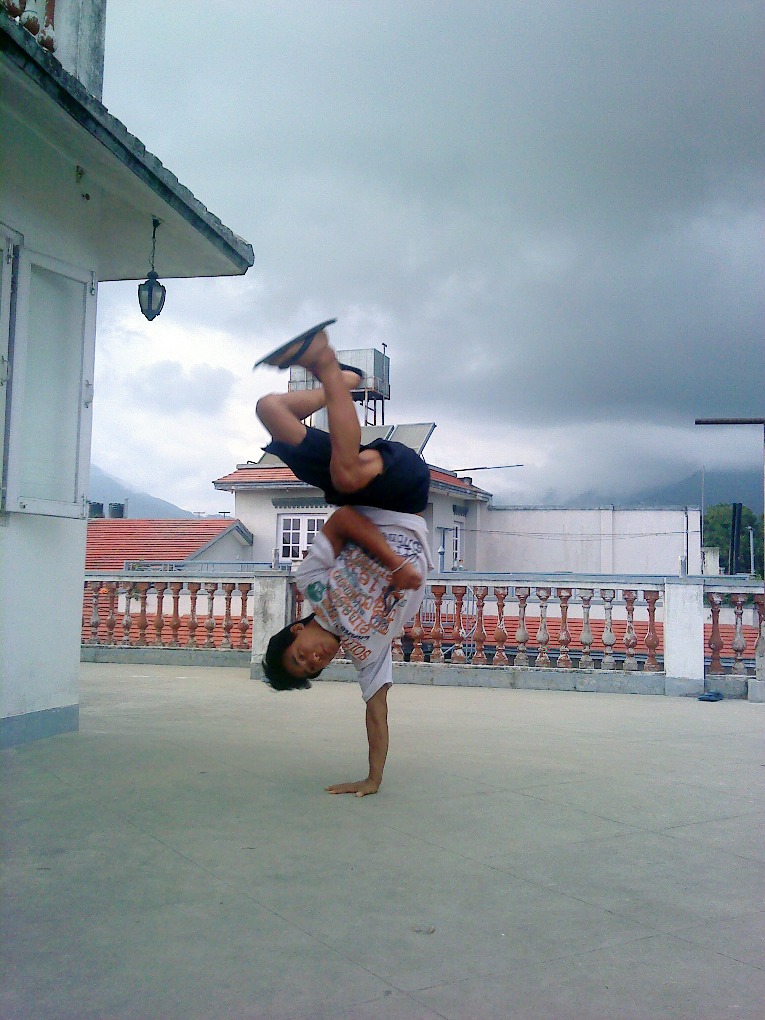 नेपाली: nepali bboy doing hand hub move